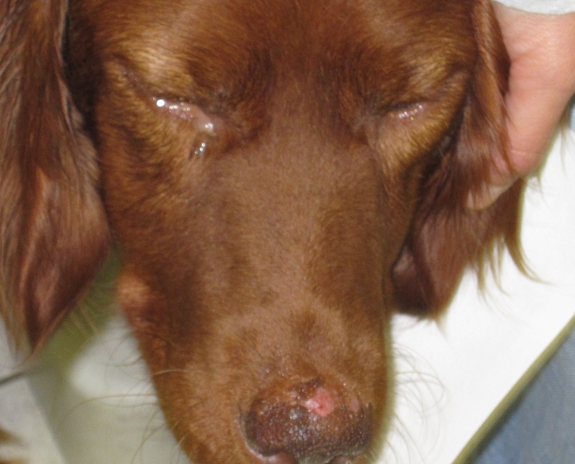 Canine Leishmaniasis